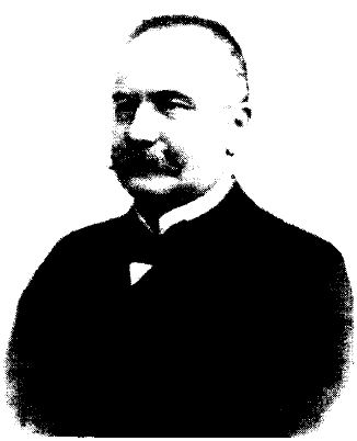 Italian historian Costanzo Rinaudo (1847-1937).